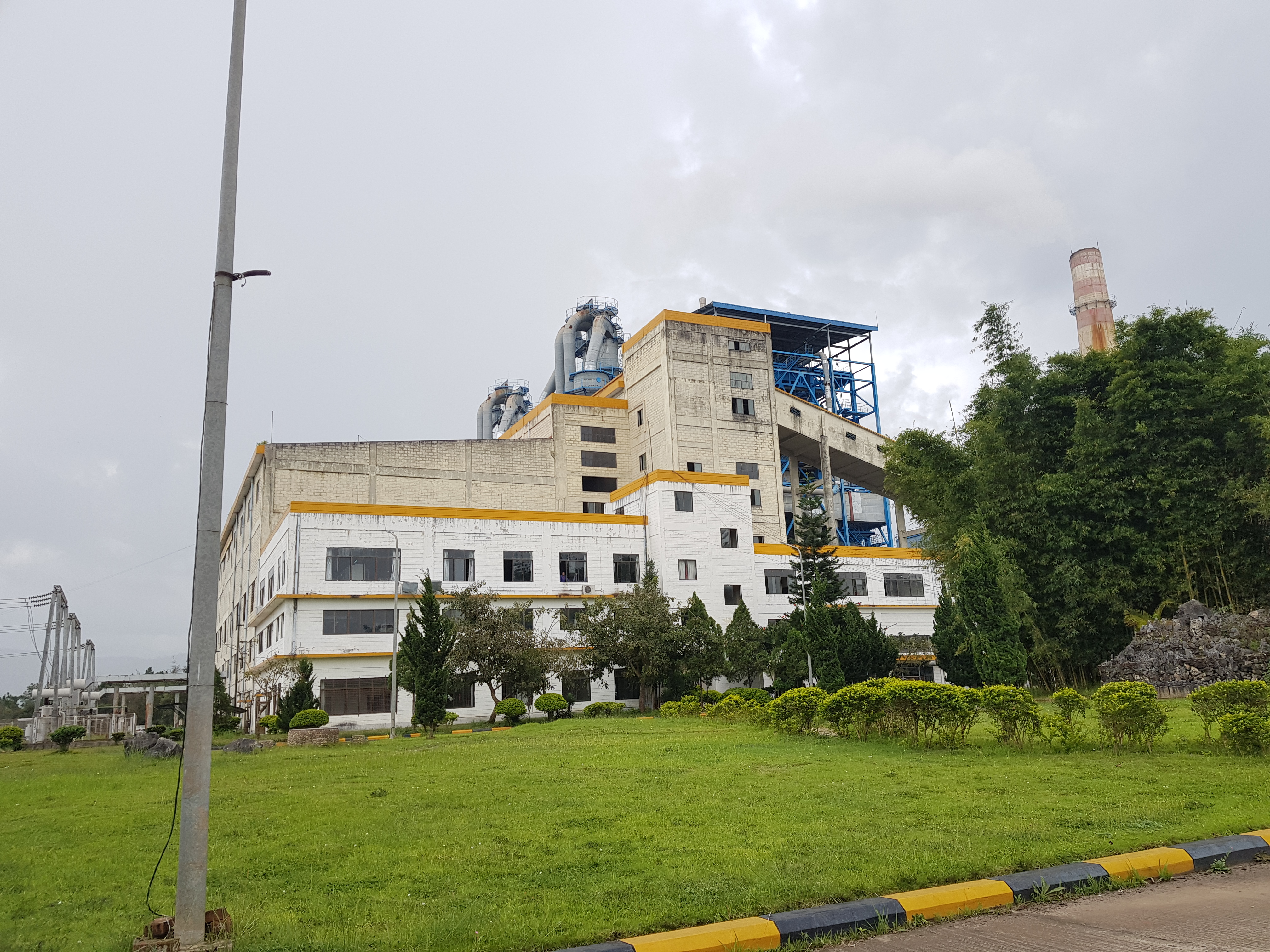 The Ti Kyit Thermal Power Station in Myanmar မြန်မာဘာသာ: တီကျစ် ကျောက်မီးသွေးသုံး ရေနွေးငွေ့ဓာတ်အားပေးစက်ရုံ